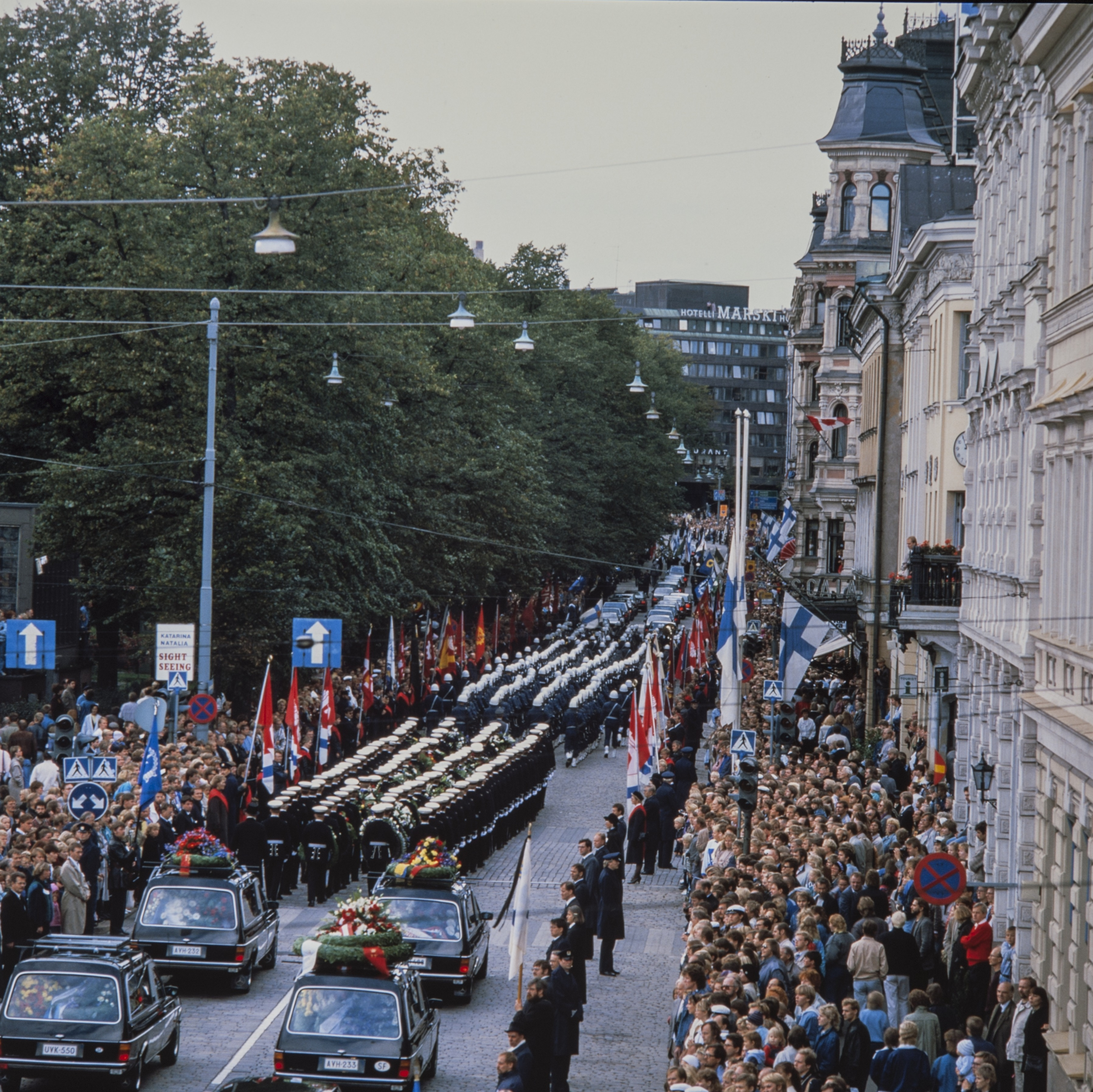 Photograph of the funeral cortege of Urho Kekkonen at Pohjoisesplanadi, Helsinki.